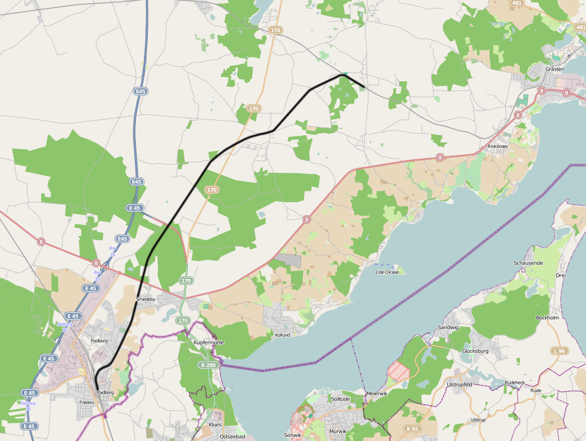 Railway line Tørsbøl - Padborg